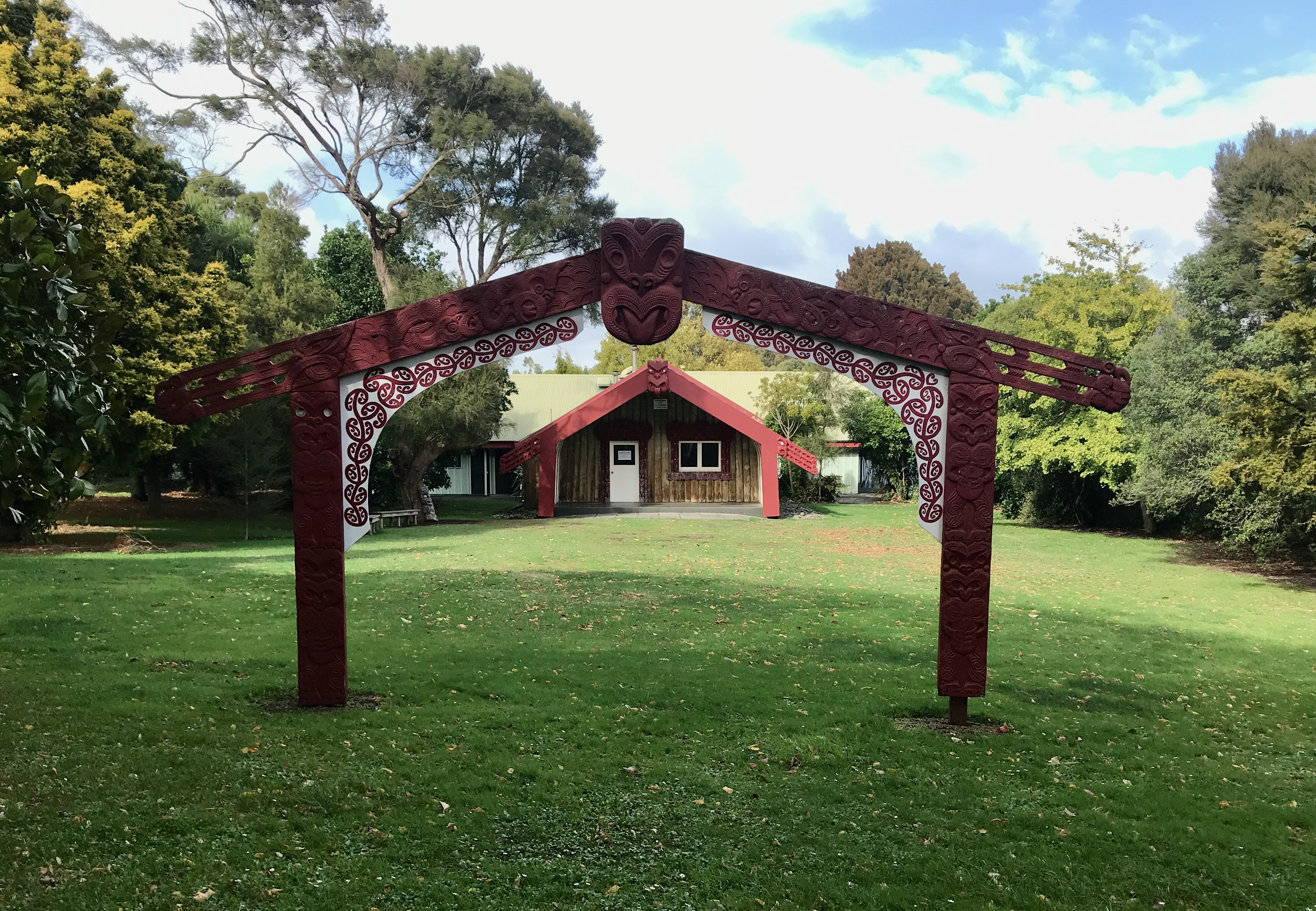 Te Wānanga o Aotearoa, a Māori-led tertiary institute in Palmerston North, New Zealand